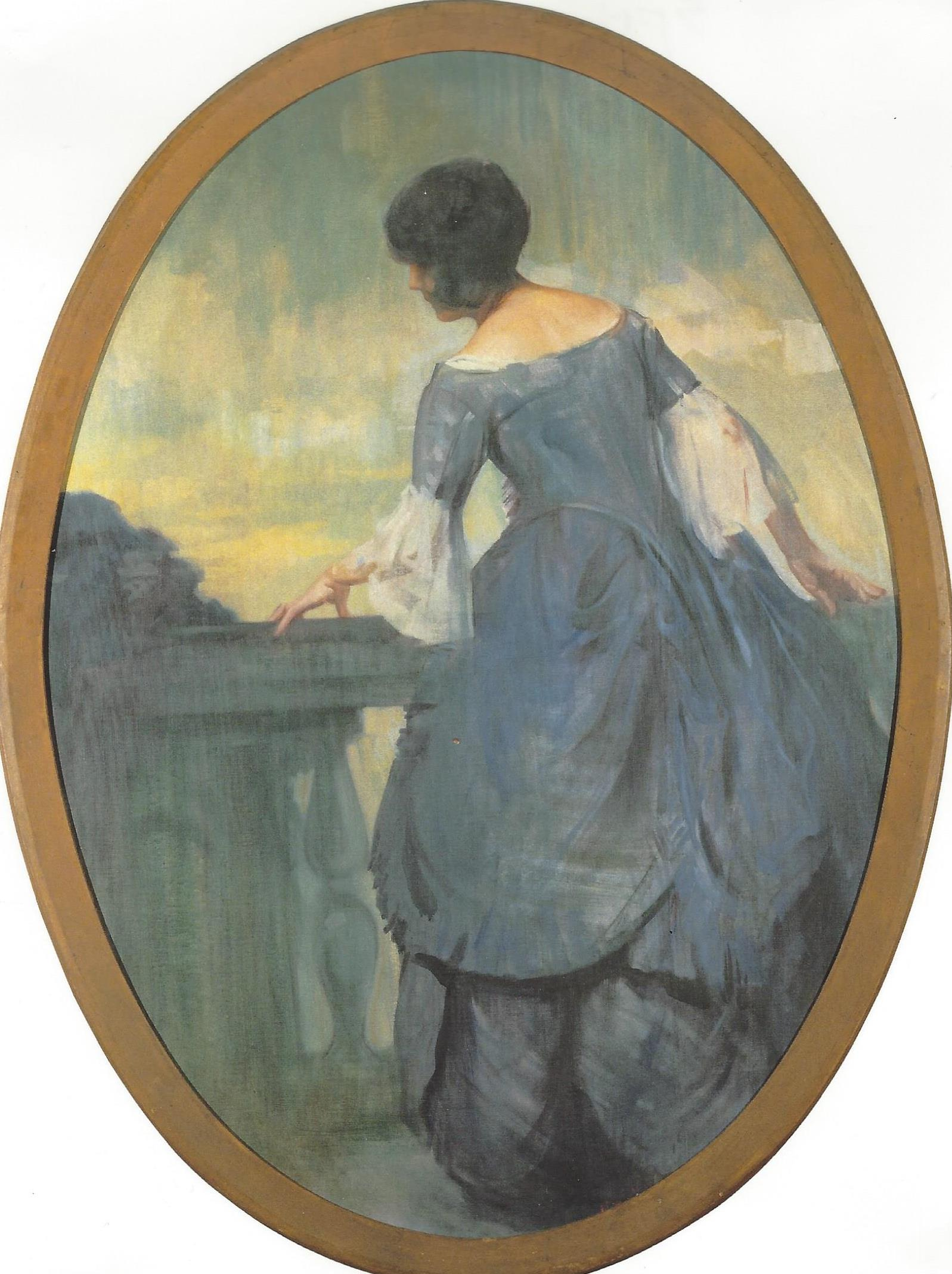 Painting by Umberto Martina; Spring 111x156 cm, commissioned circa 1919 by Giulio Ciriani.